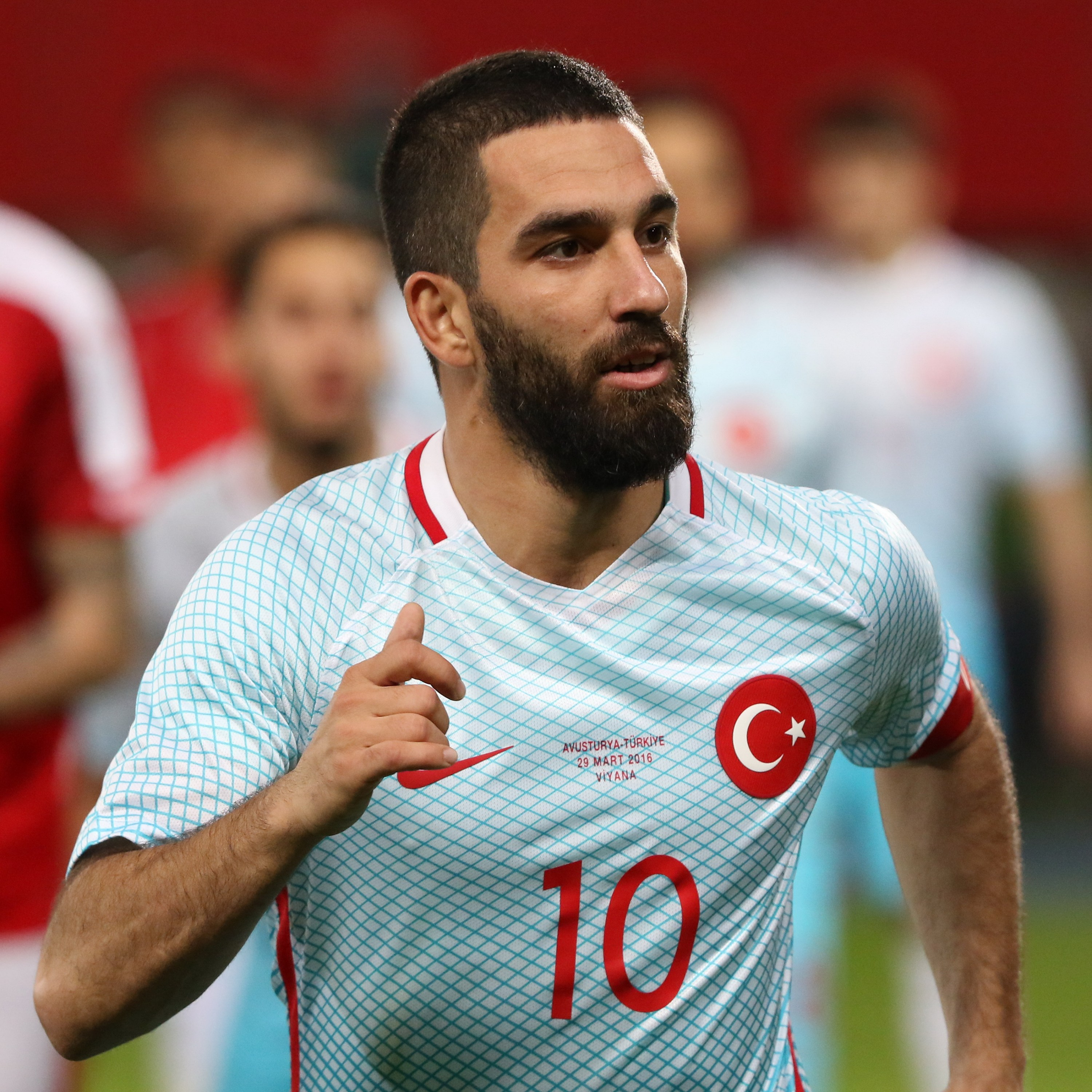 Friendly match – Austria (red shirts) vs. Turkey (blue shirts) 1–2 (1–1) on 2016-03-29 in Ernst-Happel-Stadion, Vienna – The photo shows Arda Turan (FC Barcelona).